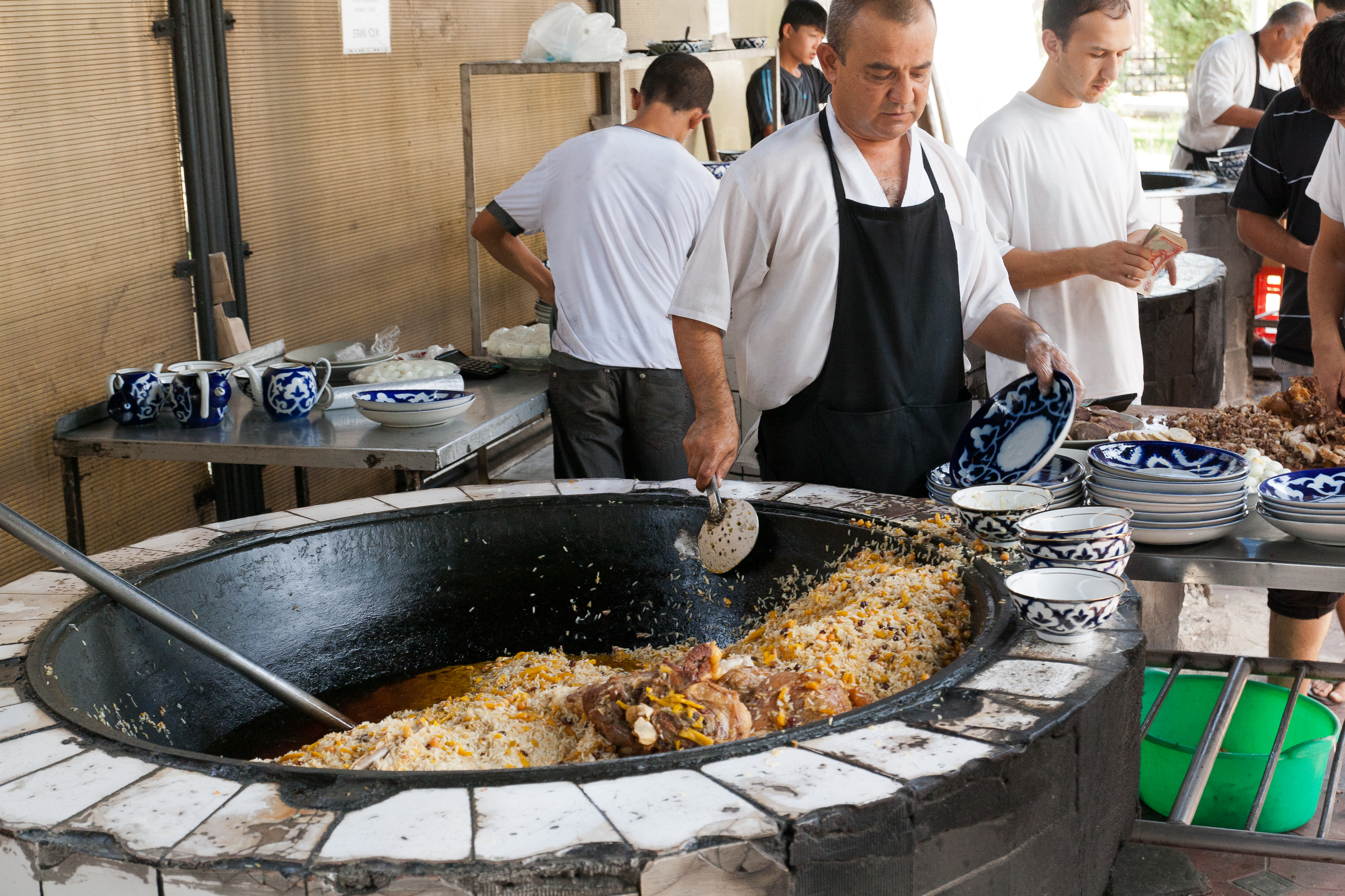 public plov cooking in Tashkent/Uzbekistan